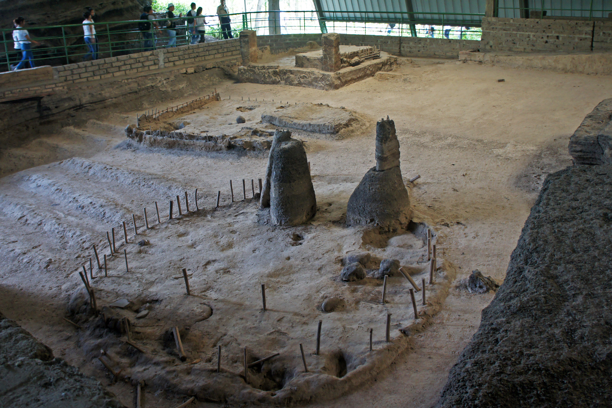 Remains of the Mayan village of Joya de Ceren buried by volcano eruption around A.D. 600. Shown structures 11, 6 and 1, at Area 1. El Salvador